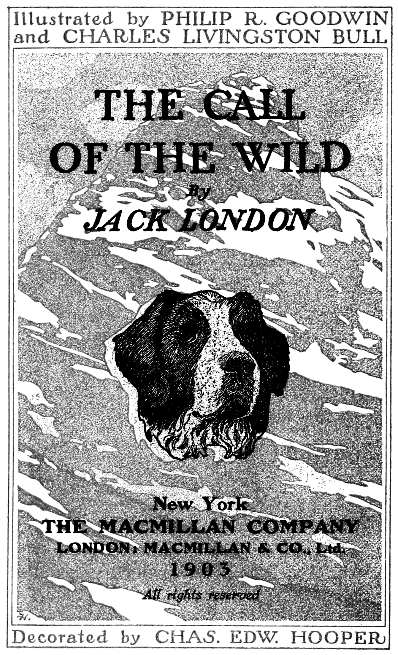 The Call of the Wild 1903 f9